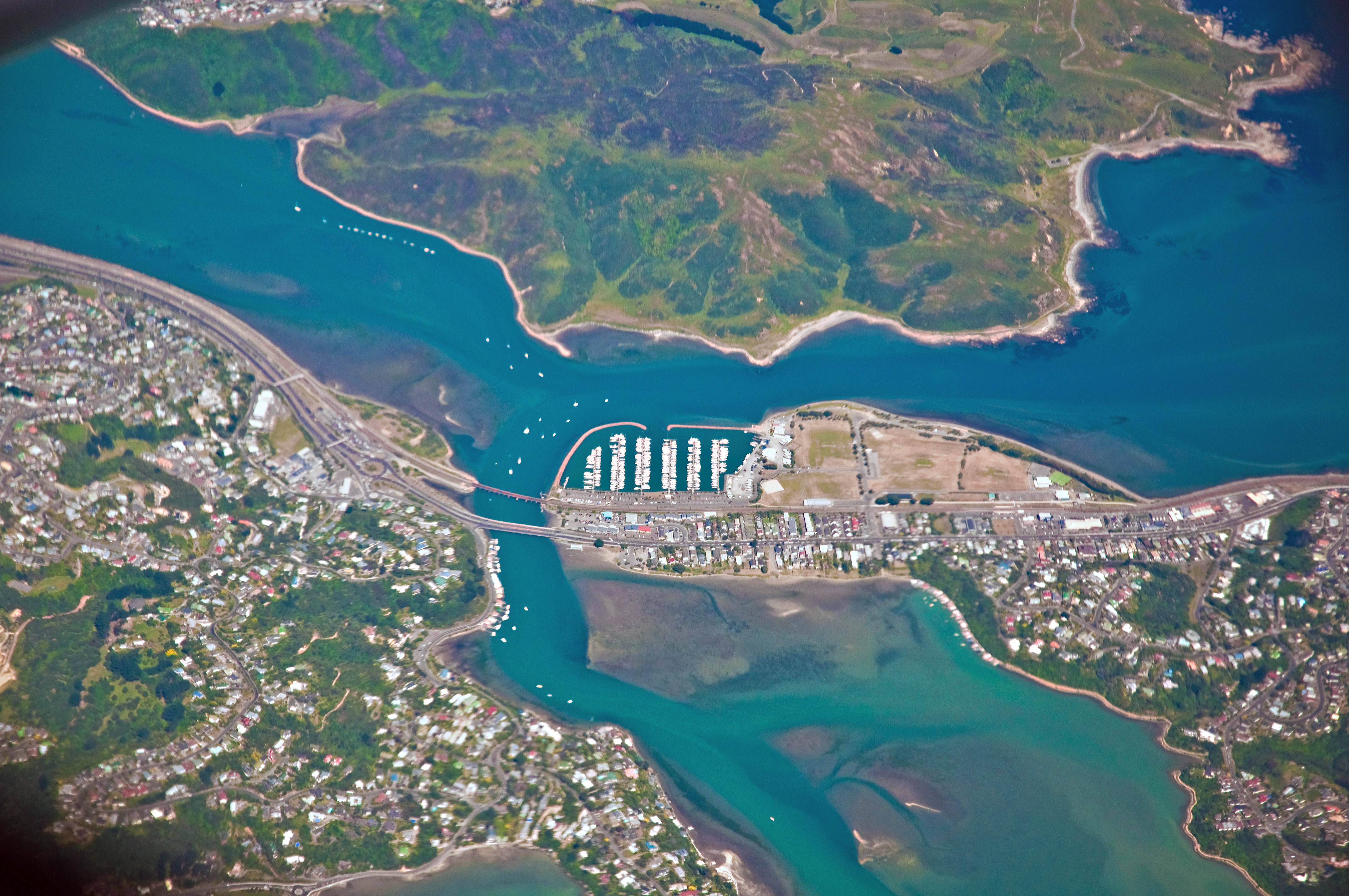 From an Eagle Airways Beech 1900D departing Wellington for Whangarei